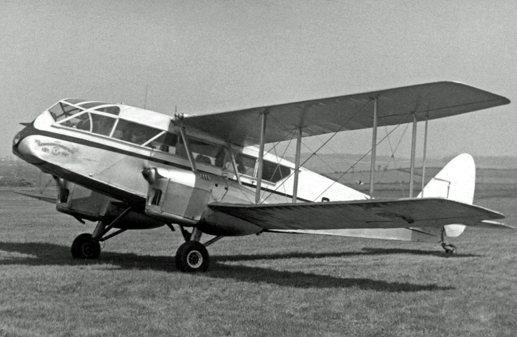 DH.84 Dragon 1 of Air Navigation & Trading at Leeds (Yeadon) Airport